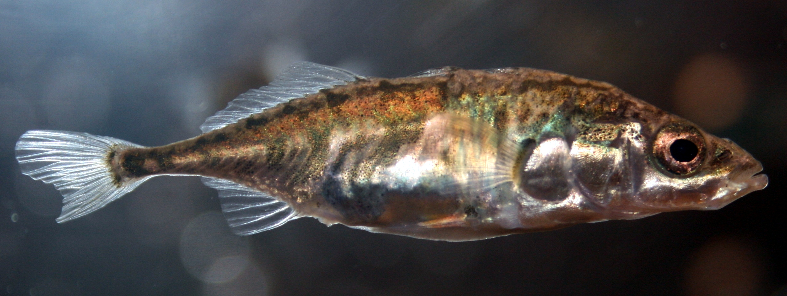 Smallhead stickleback (Gasterosteus microcephalus) in AQUA TOTTO GIFU